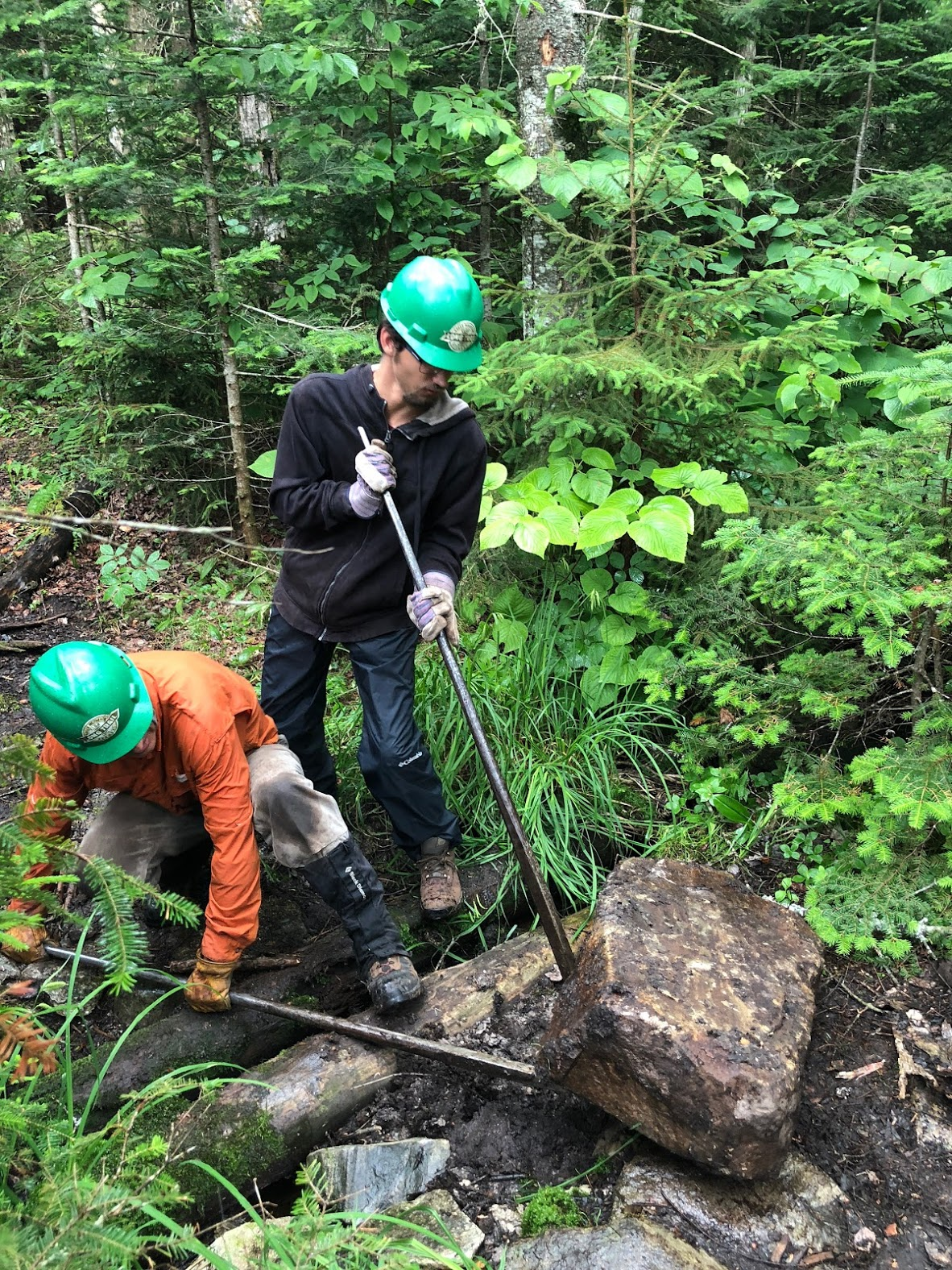 Use of a Rock Bar in trail upkeep within the Green Mountain Club Long Trail in Vermont